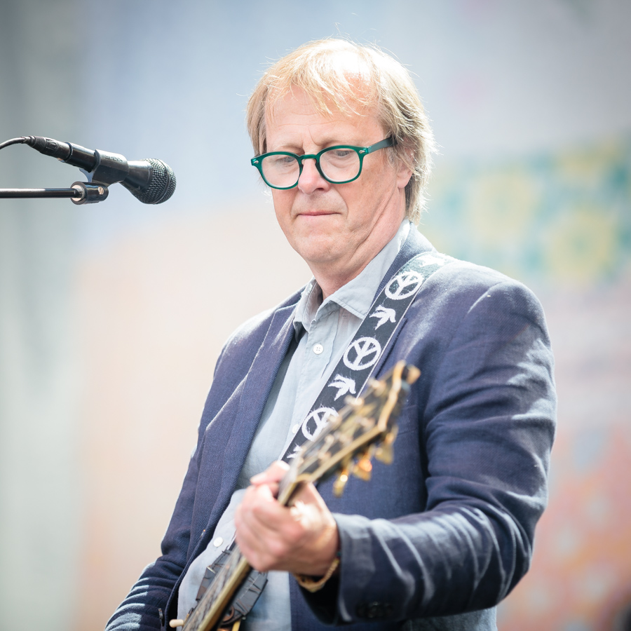 Lars Lillo-Stenberg with deLillos at the main stage at Stavernfestivalen. The concert was part of Stavernfestivalen and took place on 13. July 2018 in Stavern. Lineup:Lars Lillo-Stenberg (guitar and vocal)Lars Fredrik Beckstrøm (bass guitar)Øystein Paasche (drums)Lars Lundevall (guitar)